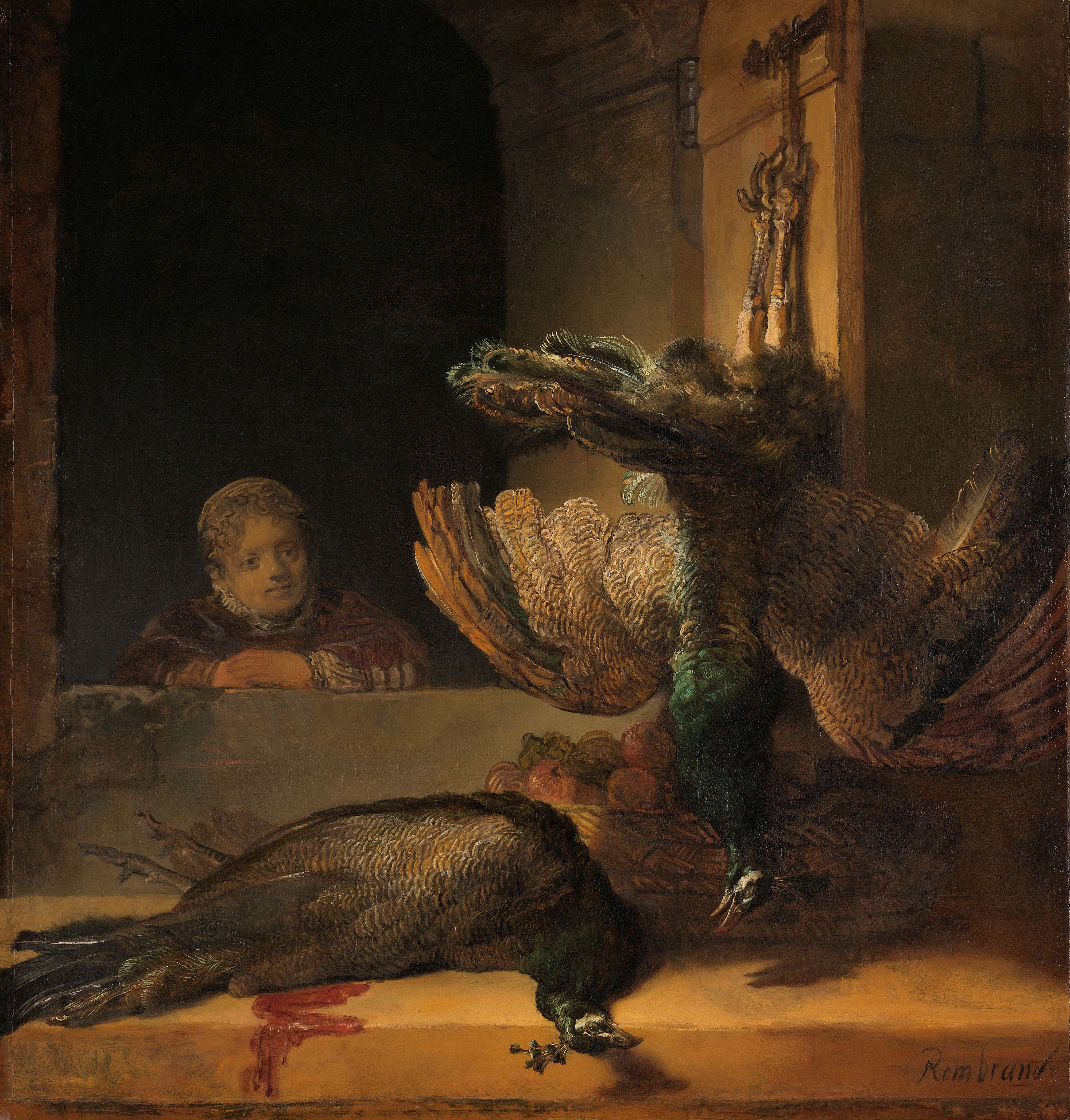 Still life with peacocks. A girl, leaning on the sill of a stone window, is looking at two dead peacocks. One peacock is hanging from an opened shutter. The other is lying on a stone plinth in a pool of blood. On the same plinth a basked of fruit is placed.